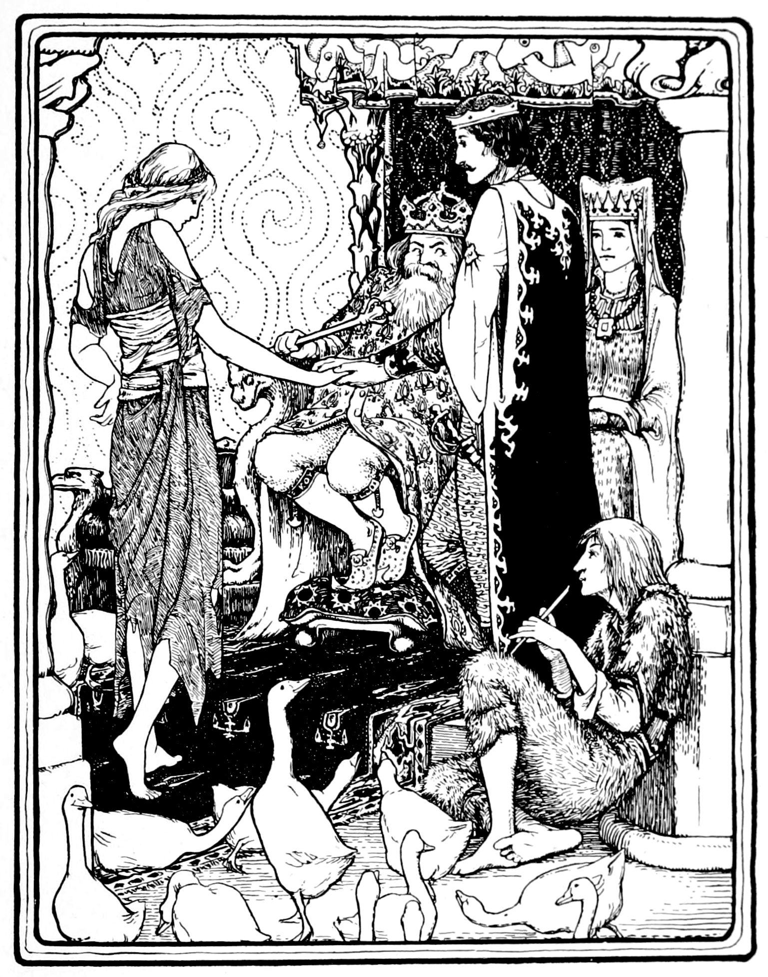 Scan illuatration on page of book in a series of fairy tales. A warning to children.